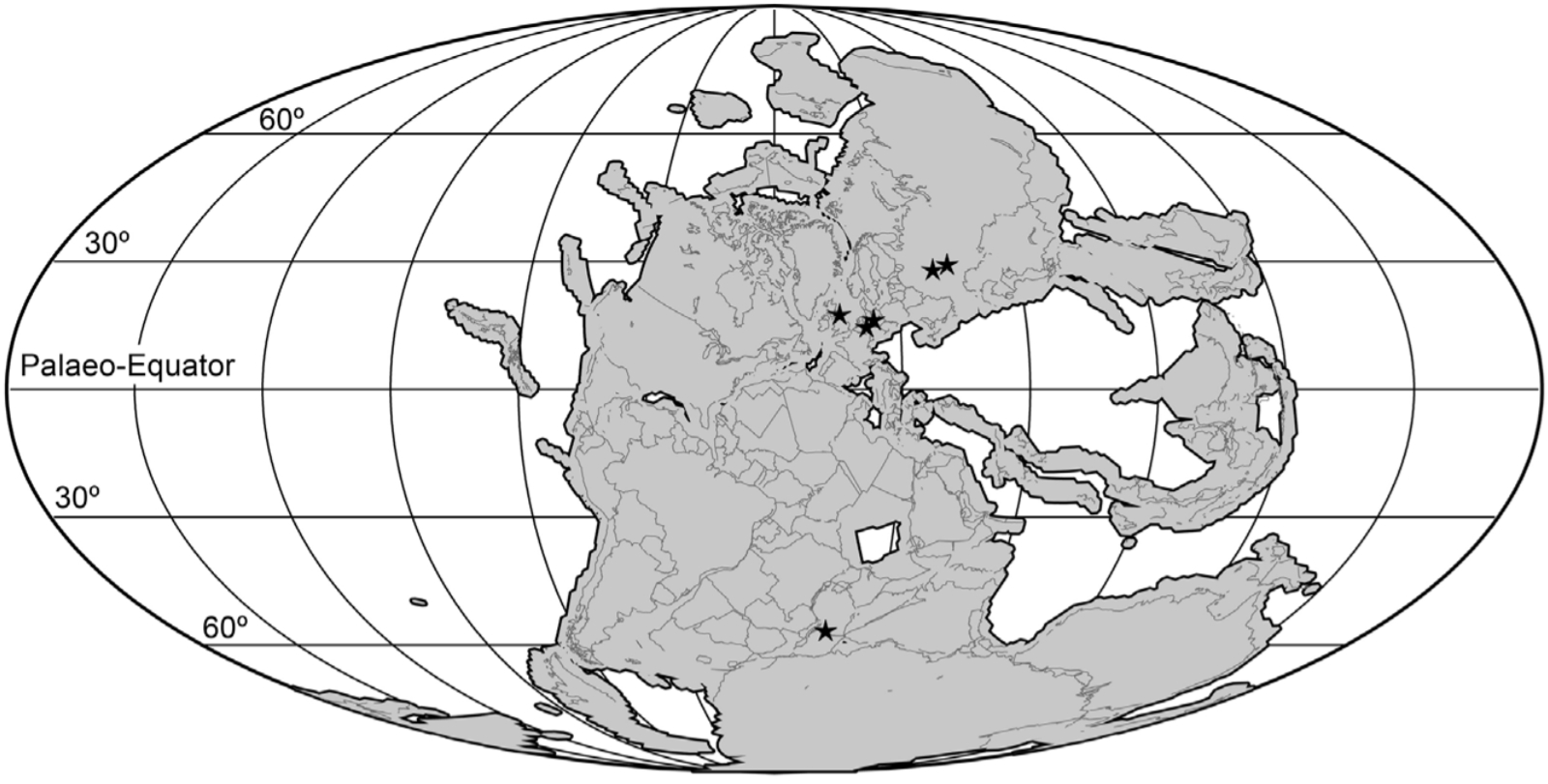 Pangea around 260 Ma (Middle Permian) with Archosauromorpha fossil locations indicated